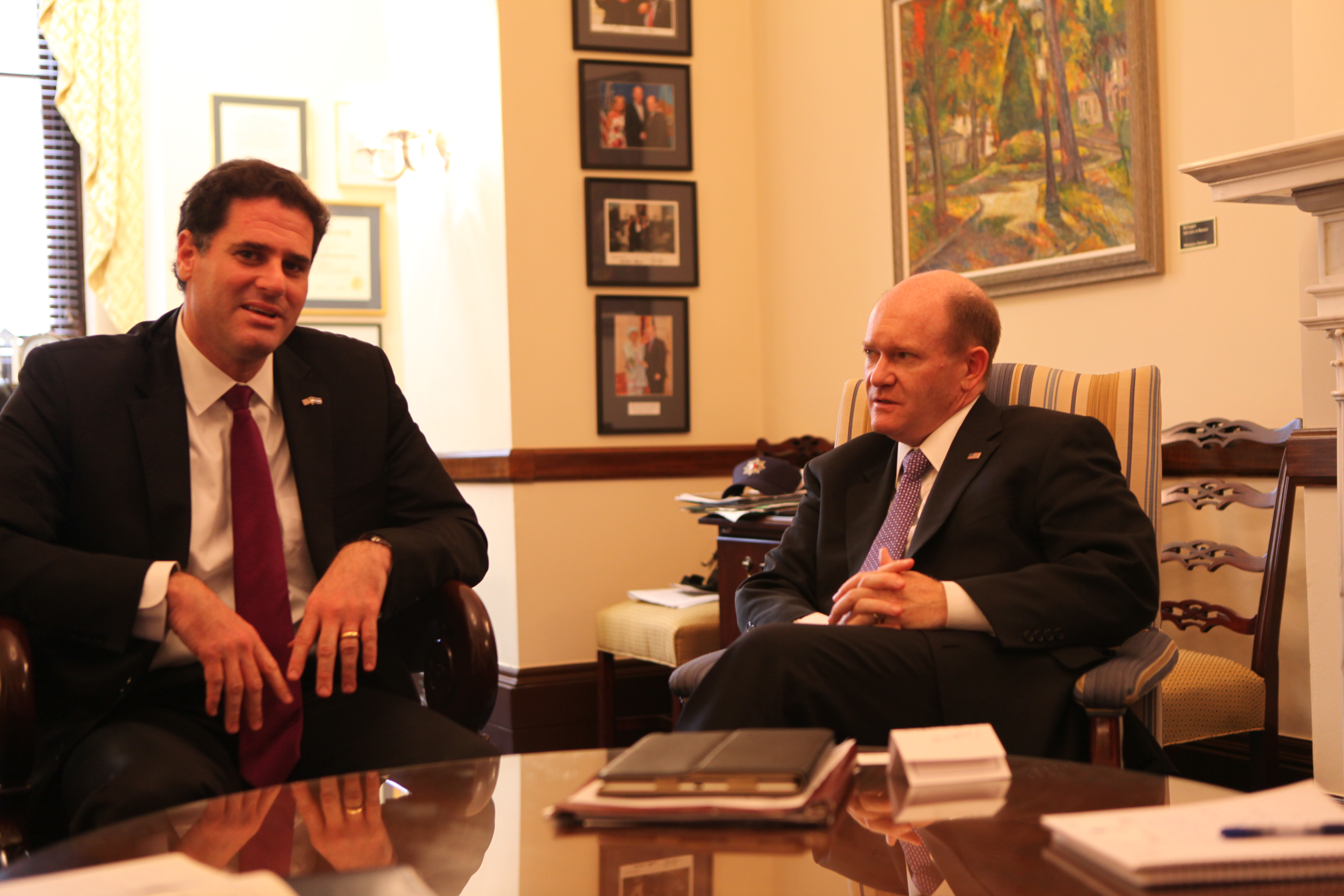 2015-07-08 Dermer 6 Senator Chris Coons with Ron Dermer